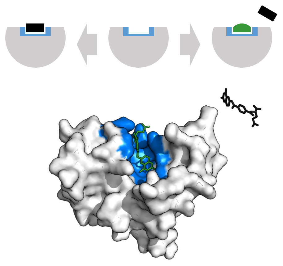 An enzyme binding site that would normally bind substrate can alternatively bind a competitive inhibitor, preventing substrate access. Dihydrofolate reductase is inhibited by methotrexate which prevents binding of its substrate, folic acid. Binding site in blue, inhibitor in green, and substrate in black. (PDB: 4QI9​)